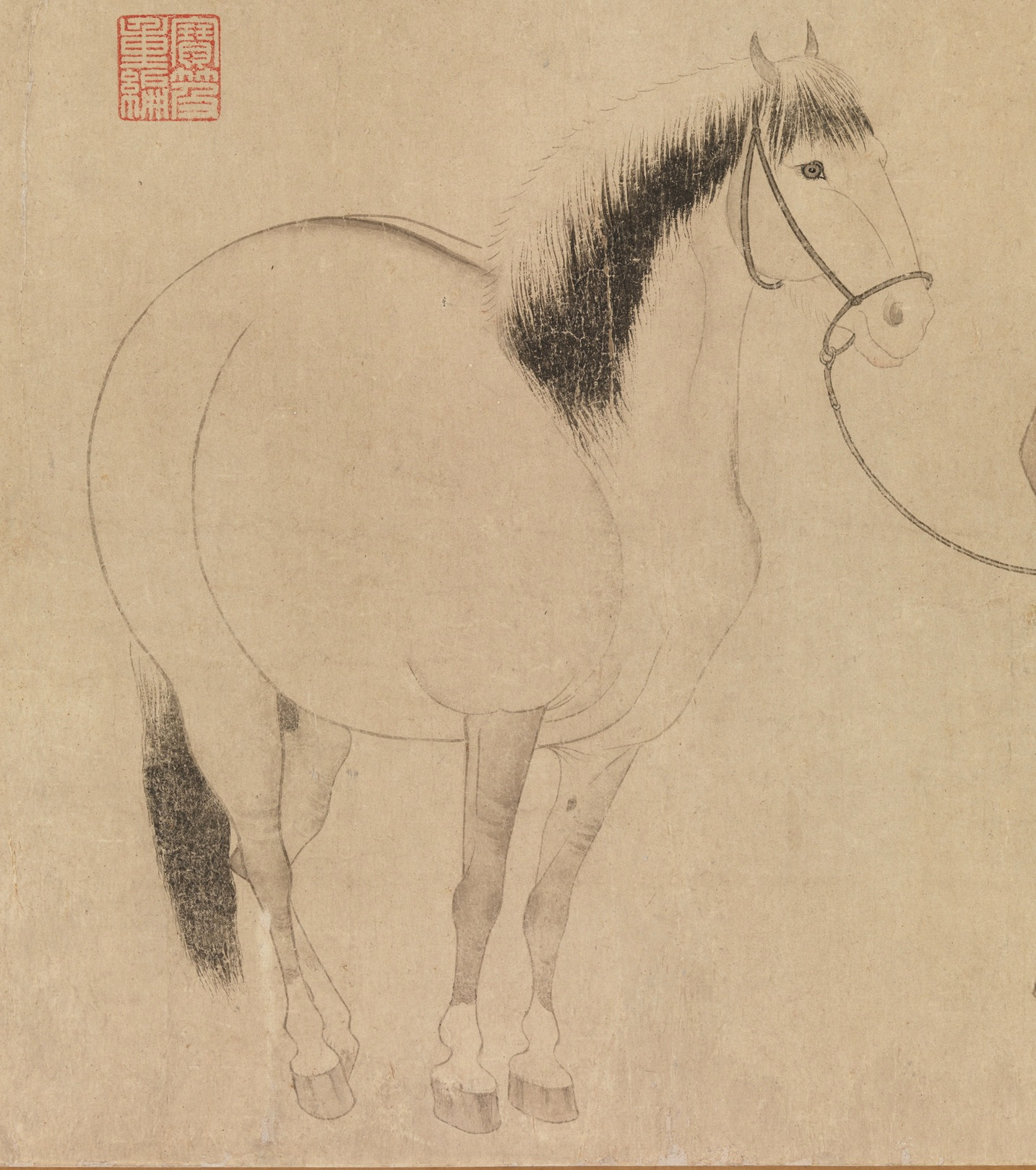 Zhao Mengfu Man and Horse, dated 1296 (30.2 x 178.1 cm), detail; Metropolitan Mus. N-Y